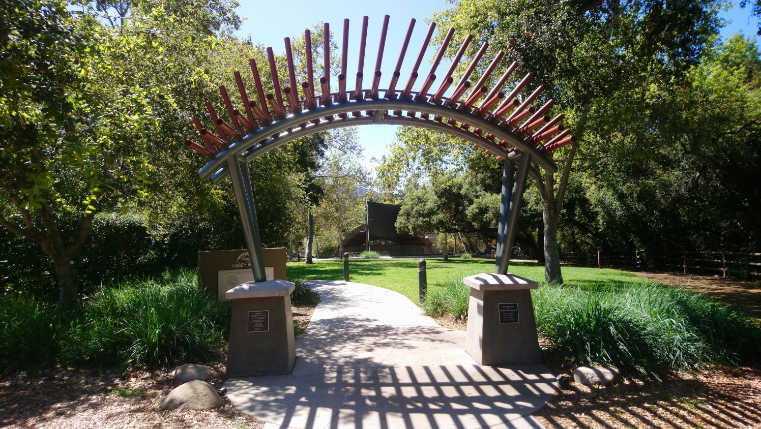 The Sound Arch (by Trimpin) is in Libbey Park at the entrance of Libbey Bowl (seen in the background).